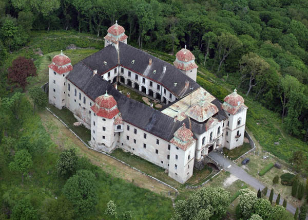 Halič, Slovakia, castle, aerial photography